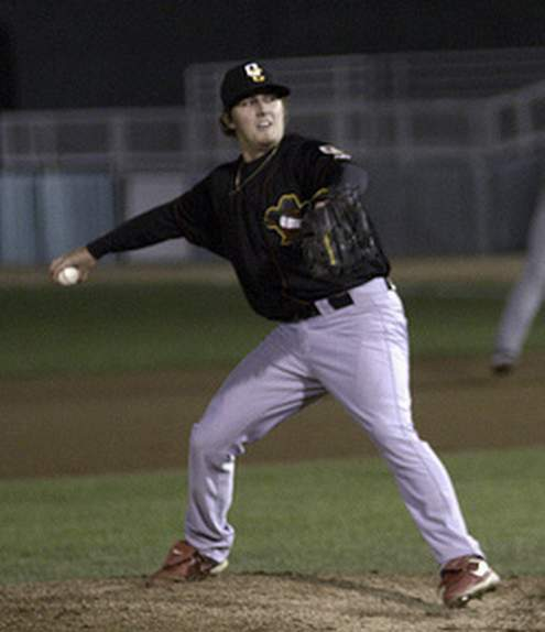 Professional baseball pitcher Seth Maness. Photo was taken September 15, 2011 in Lansing, Michigan. Maness was pitching for the Quad Cities River Bandits, at the time a Class A minor league affiliate of the St. Louis Cardinals. Photo courtesy of MWLGuide, a.k.a. Joe Dinda, via Flickr.